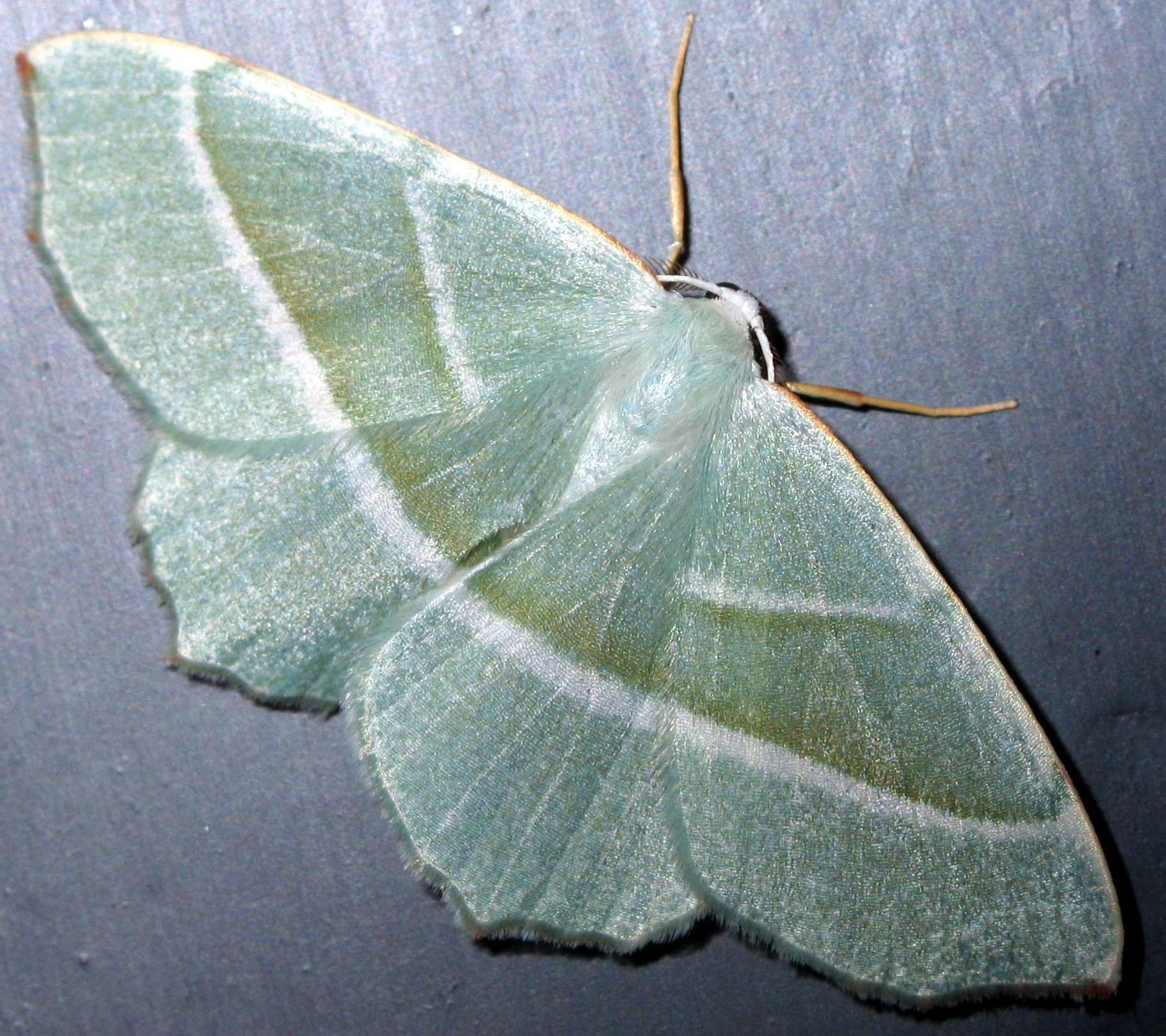 A Light Emerald (Campaea margaritata). Author: soebe Date: September 04, 2005 Location: Hamburg, Northern Germany Taken by Soebe in Northern Germany (Hamburg) and released under GNU FDL.